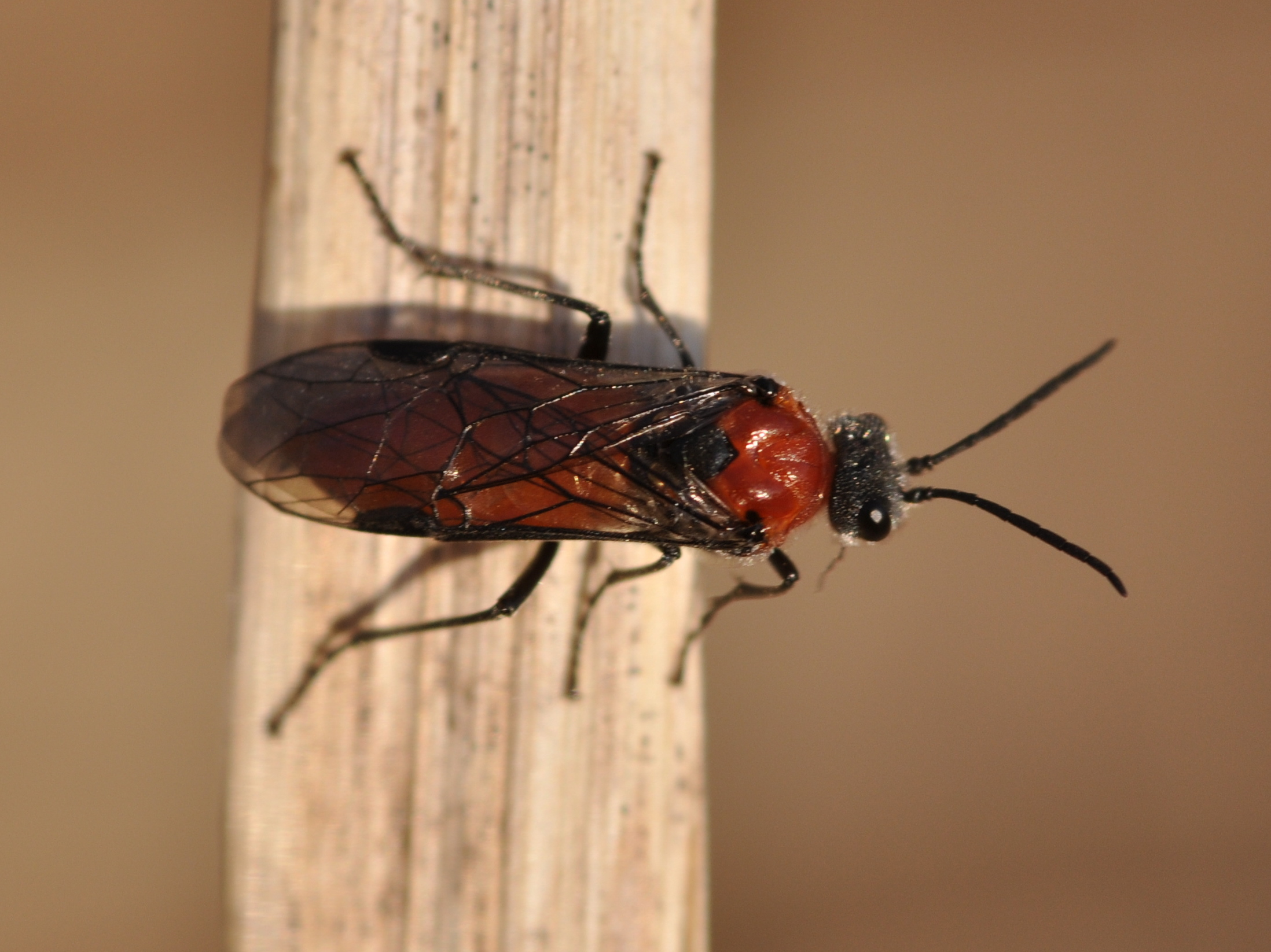 Sawfly probably Dolerus madidus female in Kirchwerder, Hamburg.